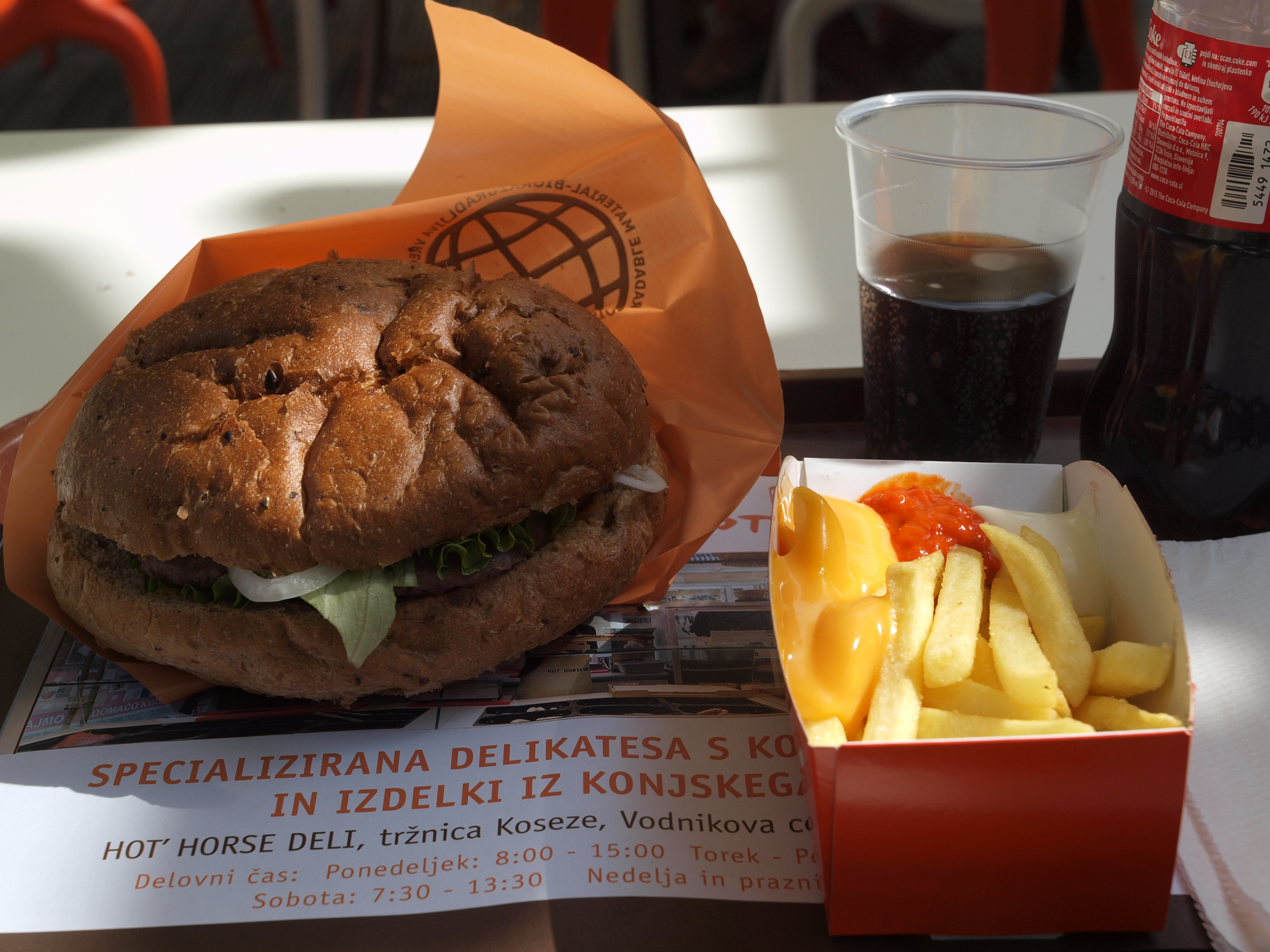 A hamburger consisting of a ground horse meat steak, vegetables and jalapeño peppers inside a hamburger bun, served with french fries with melted cheese and sauces, along with a bottle of Coca-Cola, at restaurant Hot' Horse, Tivoli Park, Ljubljana, Slovenia.